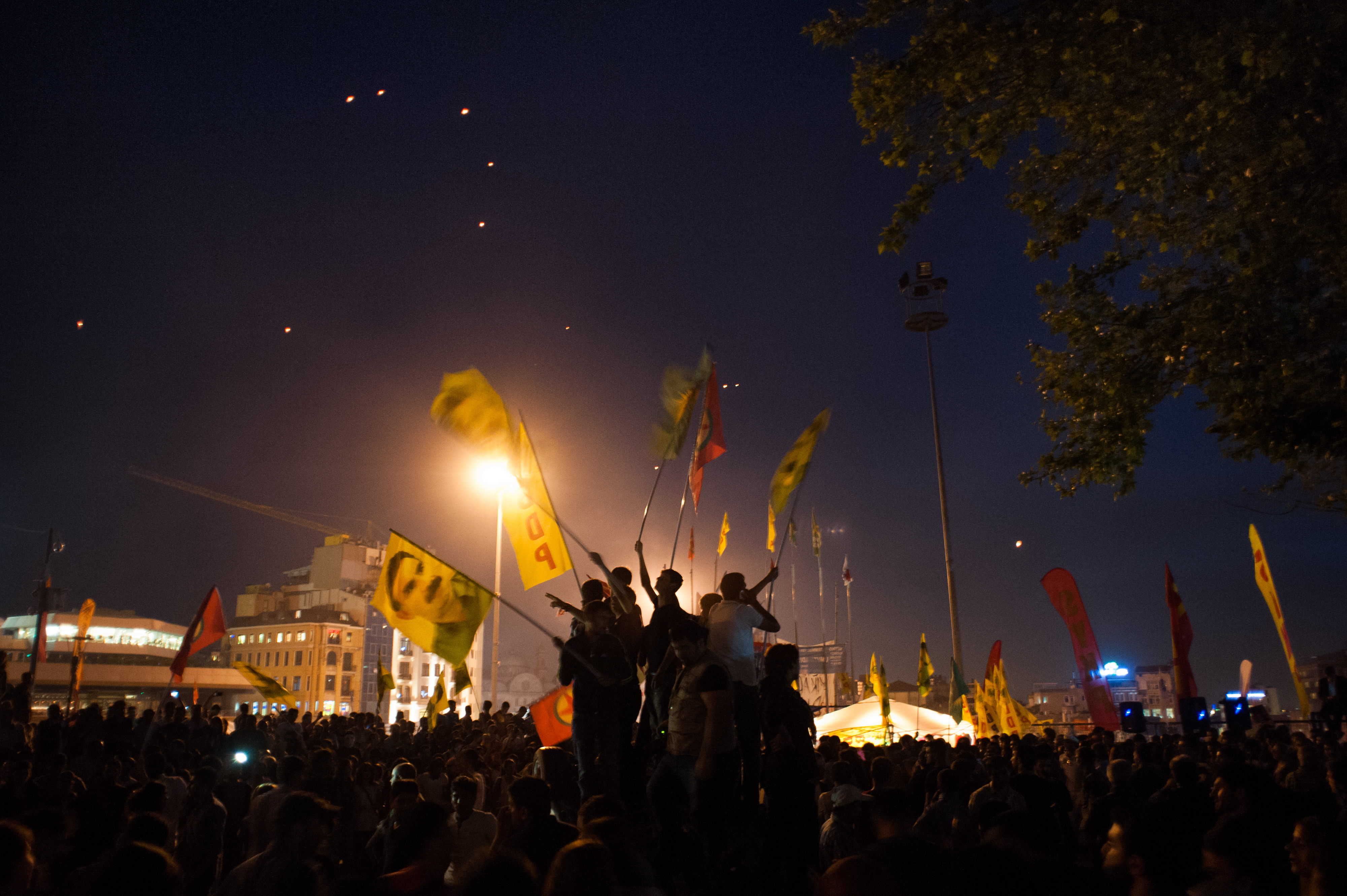 Dances with flags at the square. Events of June 7, 2013.